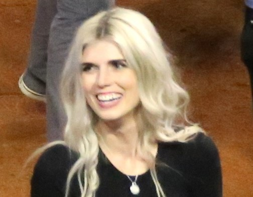 World Series MVP Ben Zobrist, his wife Julianna and his new 50th anniversary Chevy Camaro.